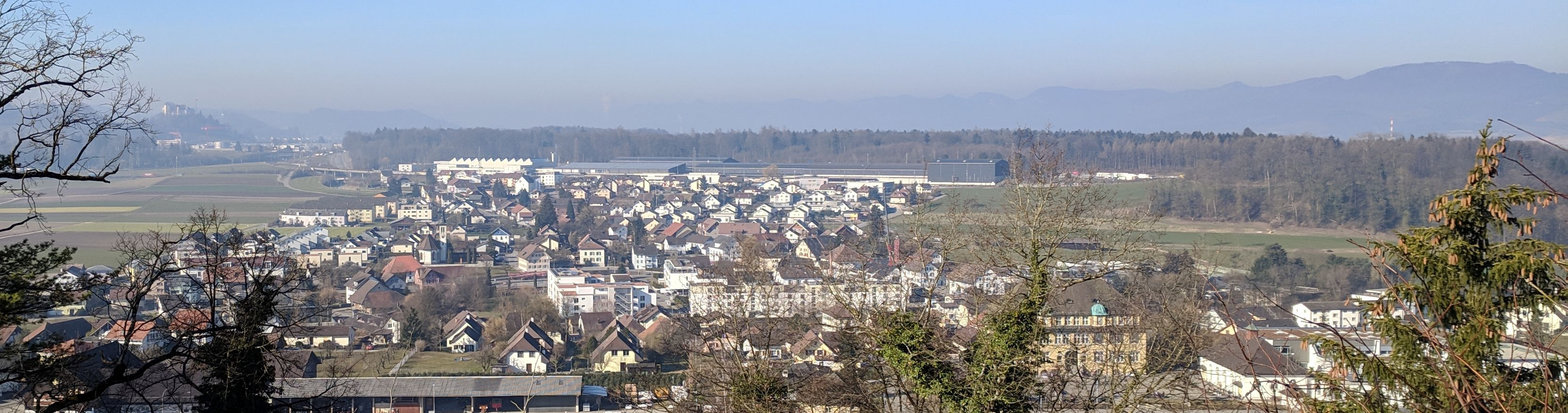 Othmarsingen vom Felskopf aus gesehen, der nördliche Teil des Dorfes ist dabei nicht zu sehen.